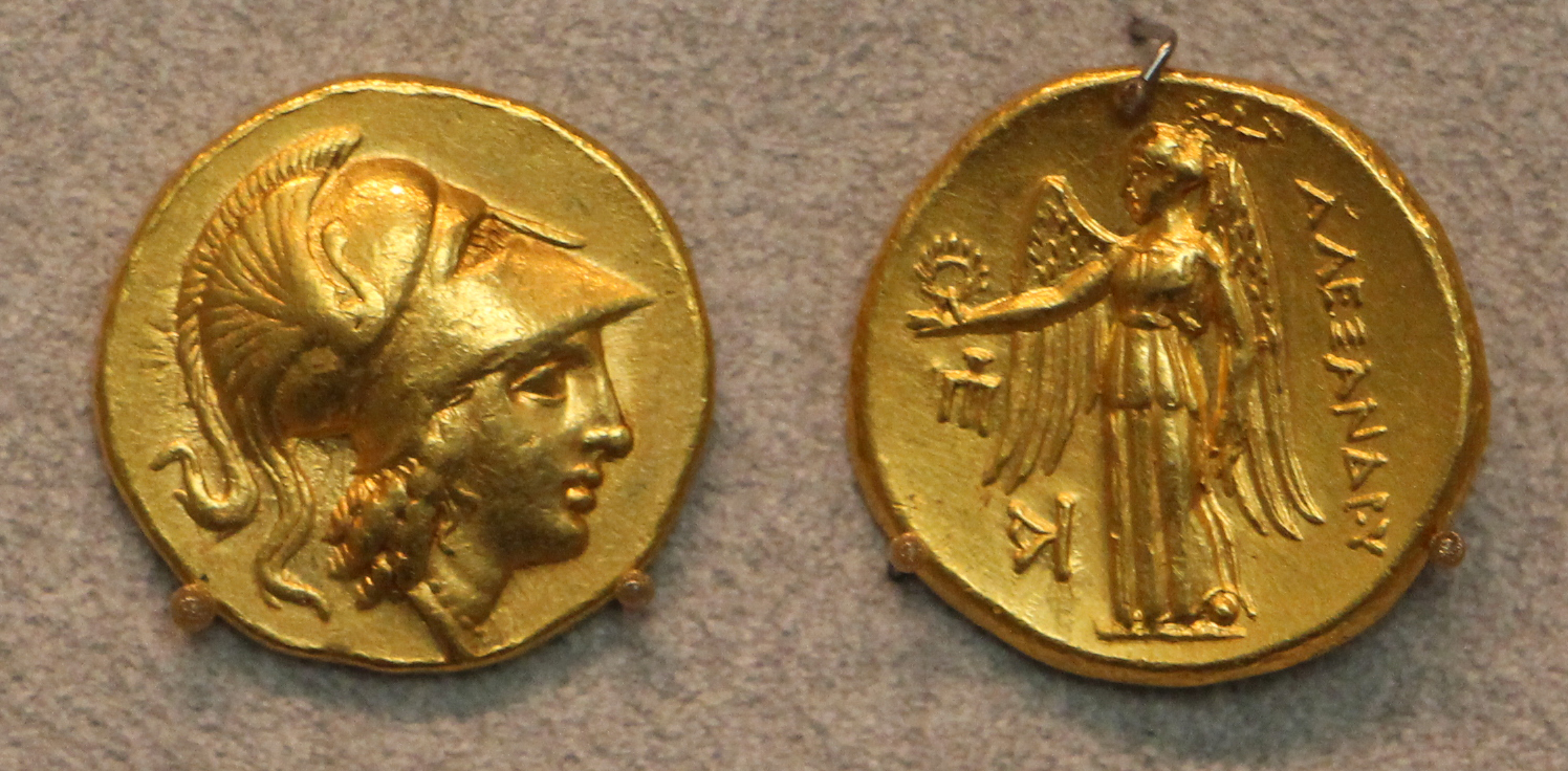 Ancient Greek coins in the Altes Museum Berlin